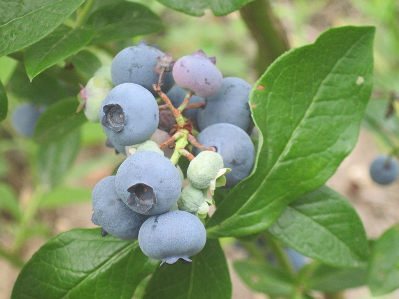 Highbush Blueberry (Vaccinium corymbosum) cultivar 'Patriot' growing in Mason, New Hampshire.